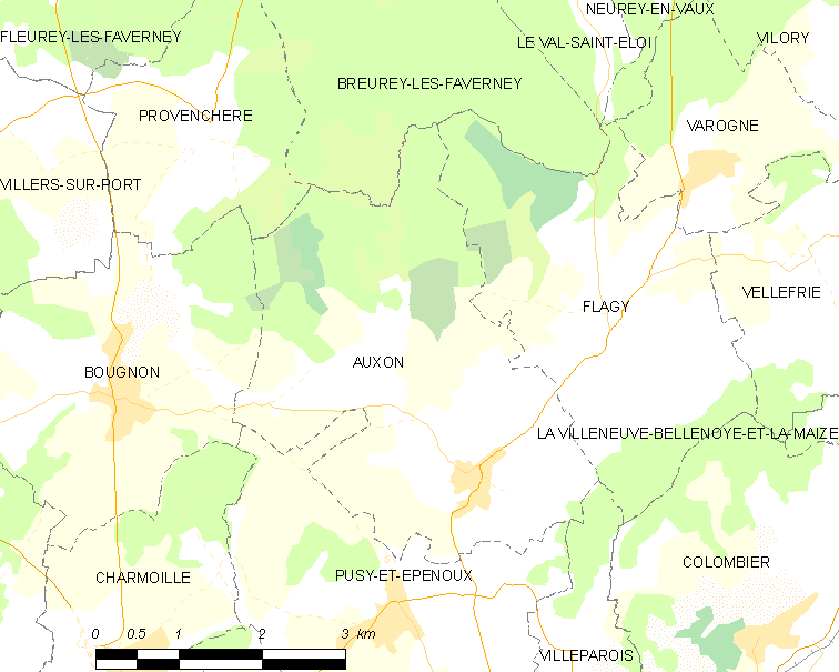 Map of French municipality